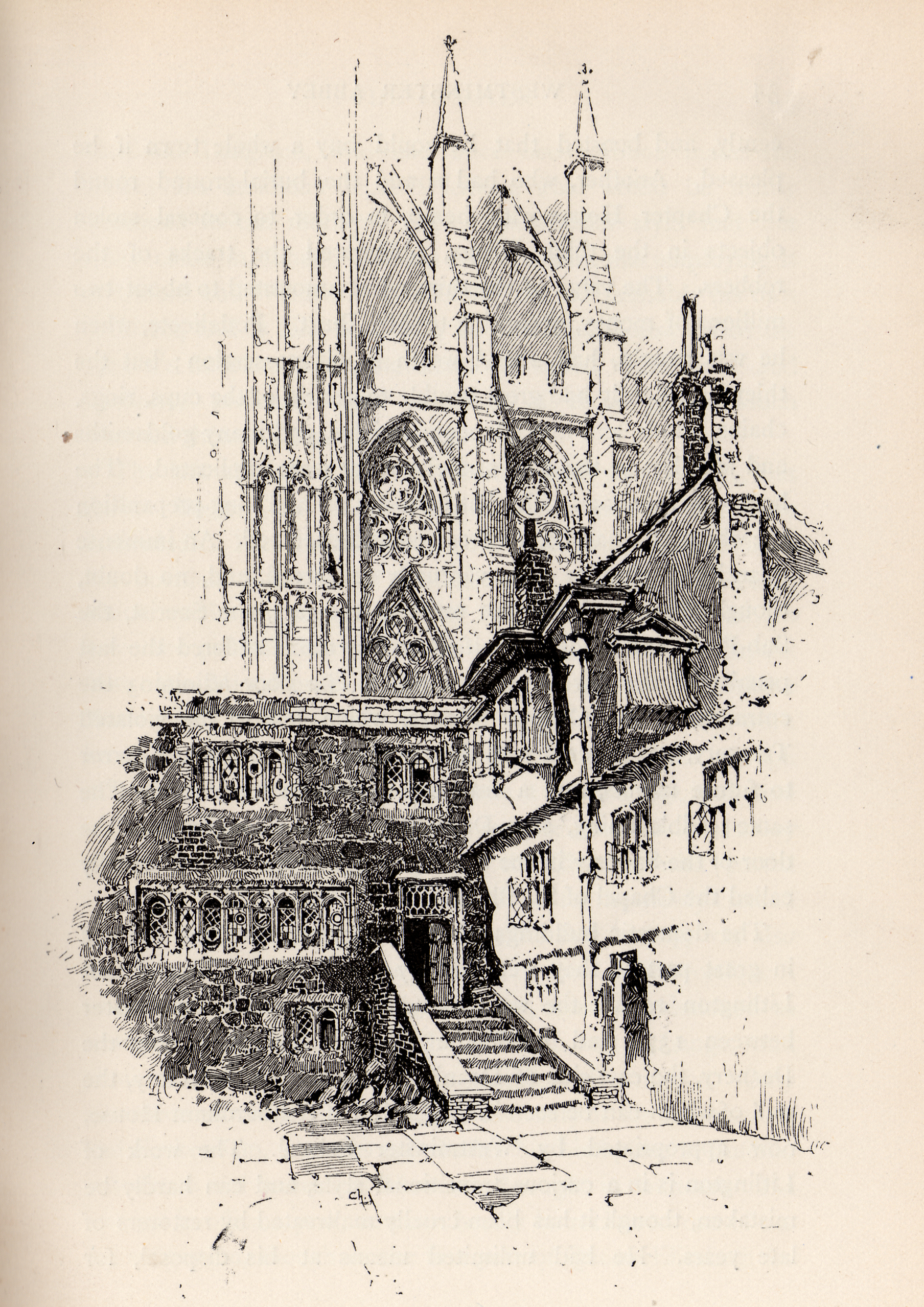 Illustration by Herbert Railton (1857-1910), from A Brief Account of Westminster Abbey (1894) by WJ Loftie